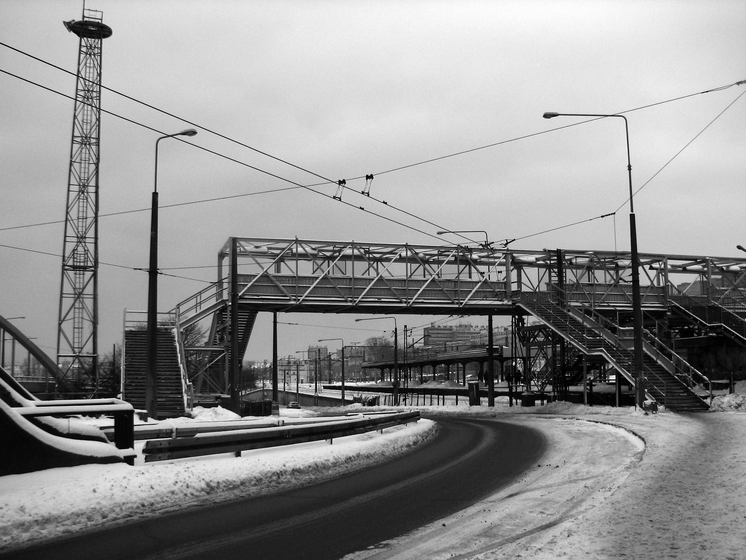 Janek Wiśniewski's deathplace forty years later. He was innocent victim of militia masacres during Polish 1970 protests.